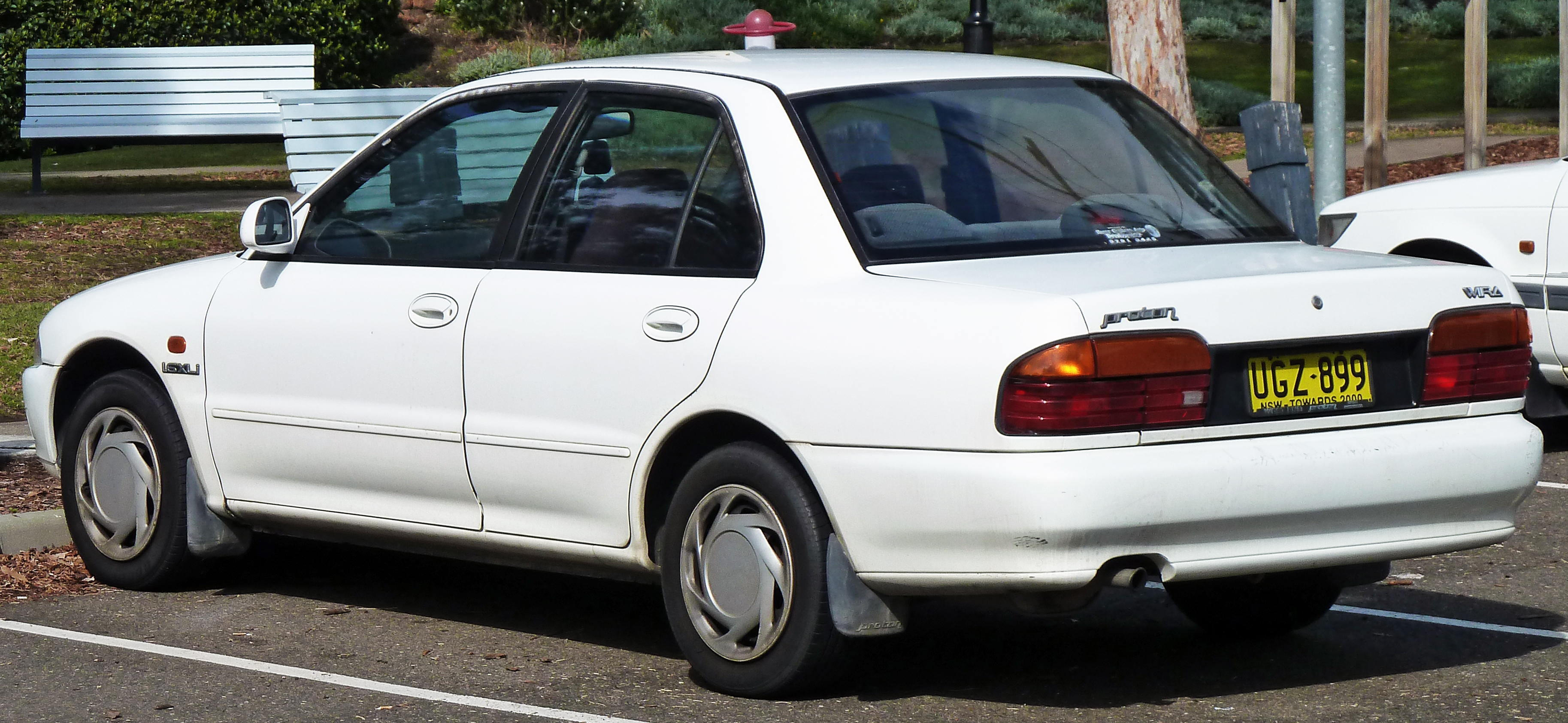 1996 Proton Wira (C90) XLi sedan. Photographed in Sylvania, New South Wales, Australia.